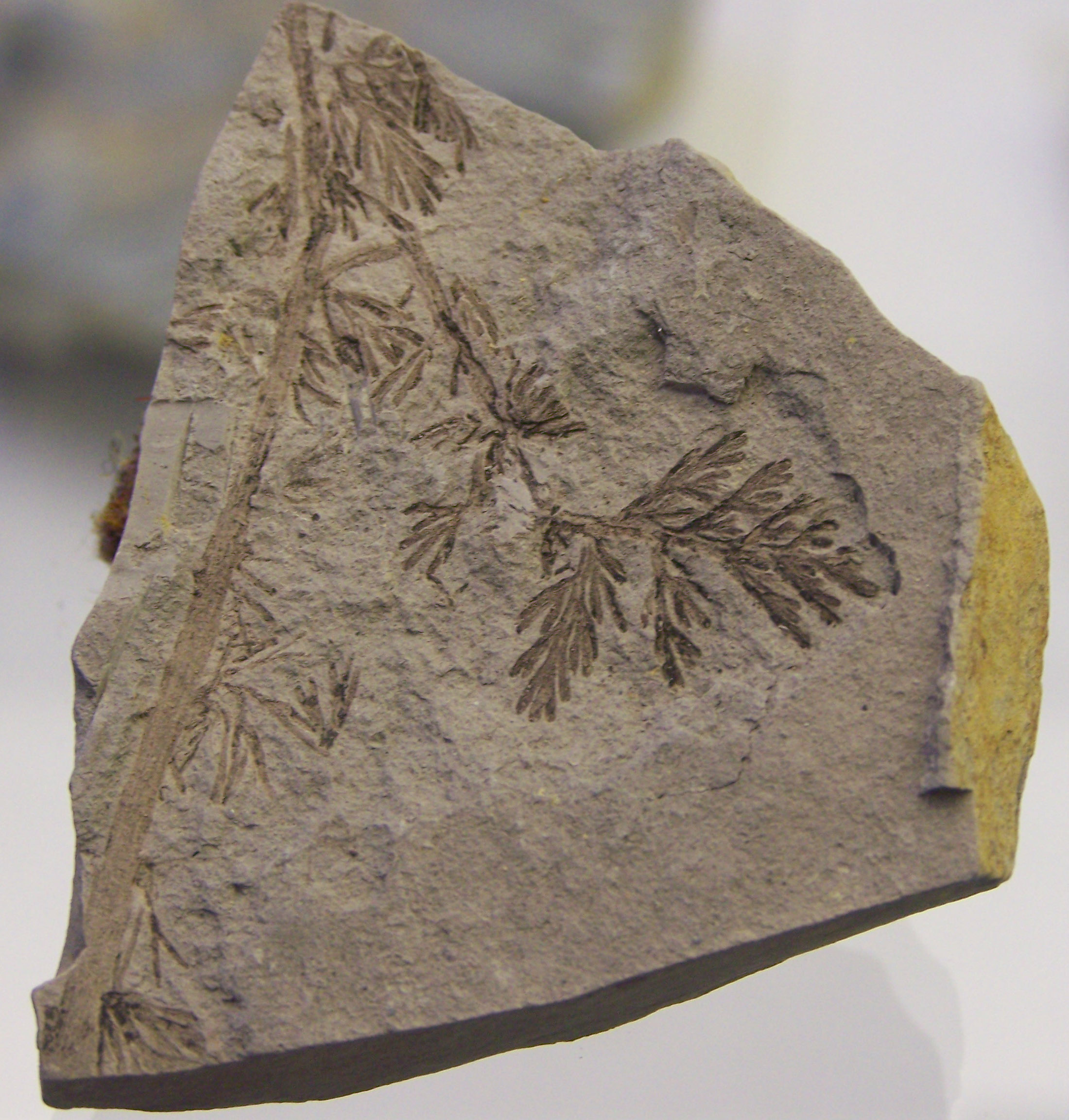 Fossil of the exinct plant species Diplopteridium holdenii (Pteridospermopsida), from the Asbian chronozone (Lower Carboniferous/Visean of England) at Drybrook. Rock is about 10 cm long. Collection of the Universiteit Utrecht.